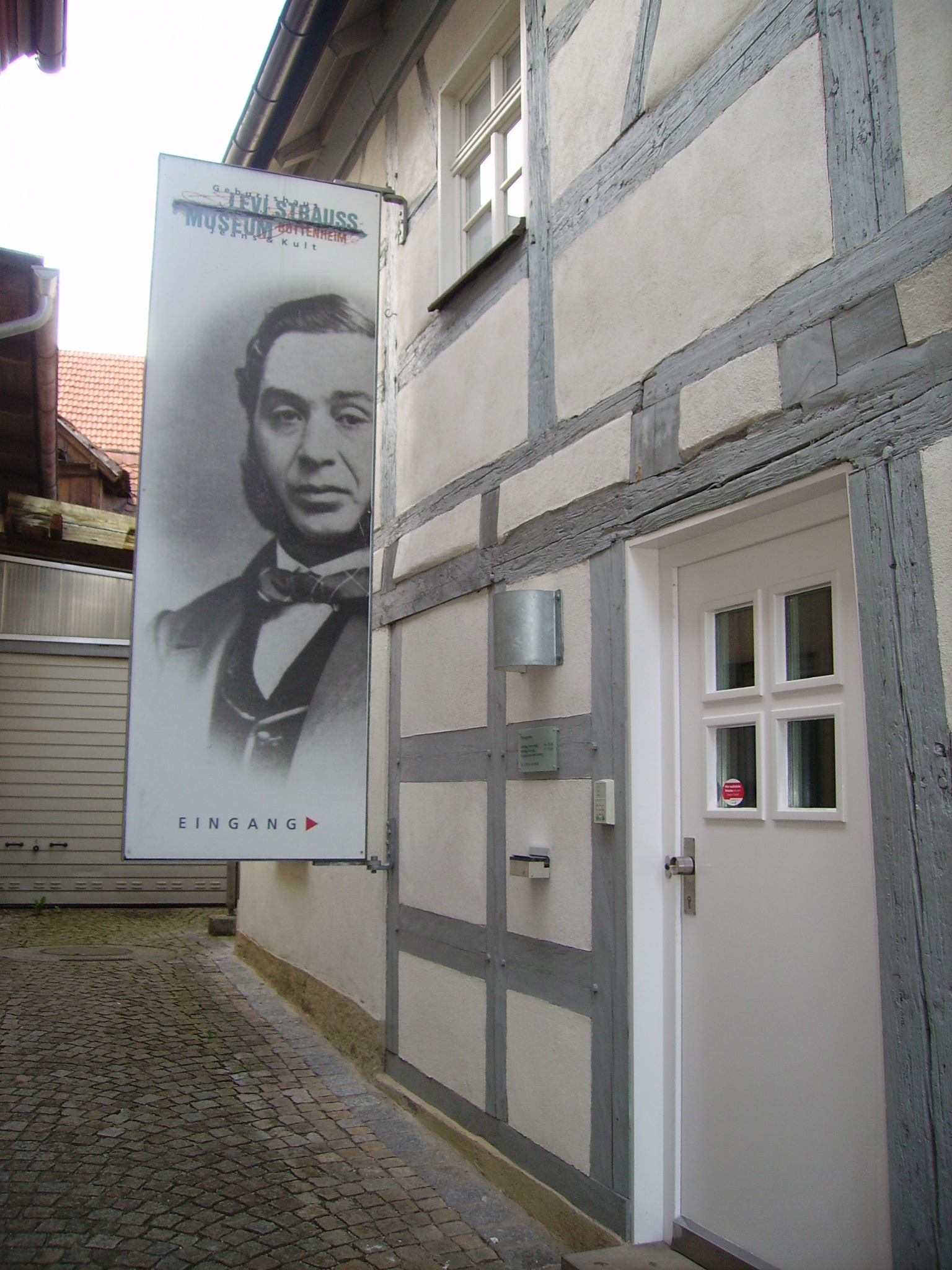 Buttenheim, Germany